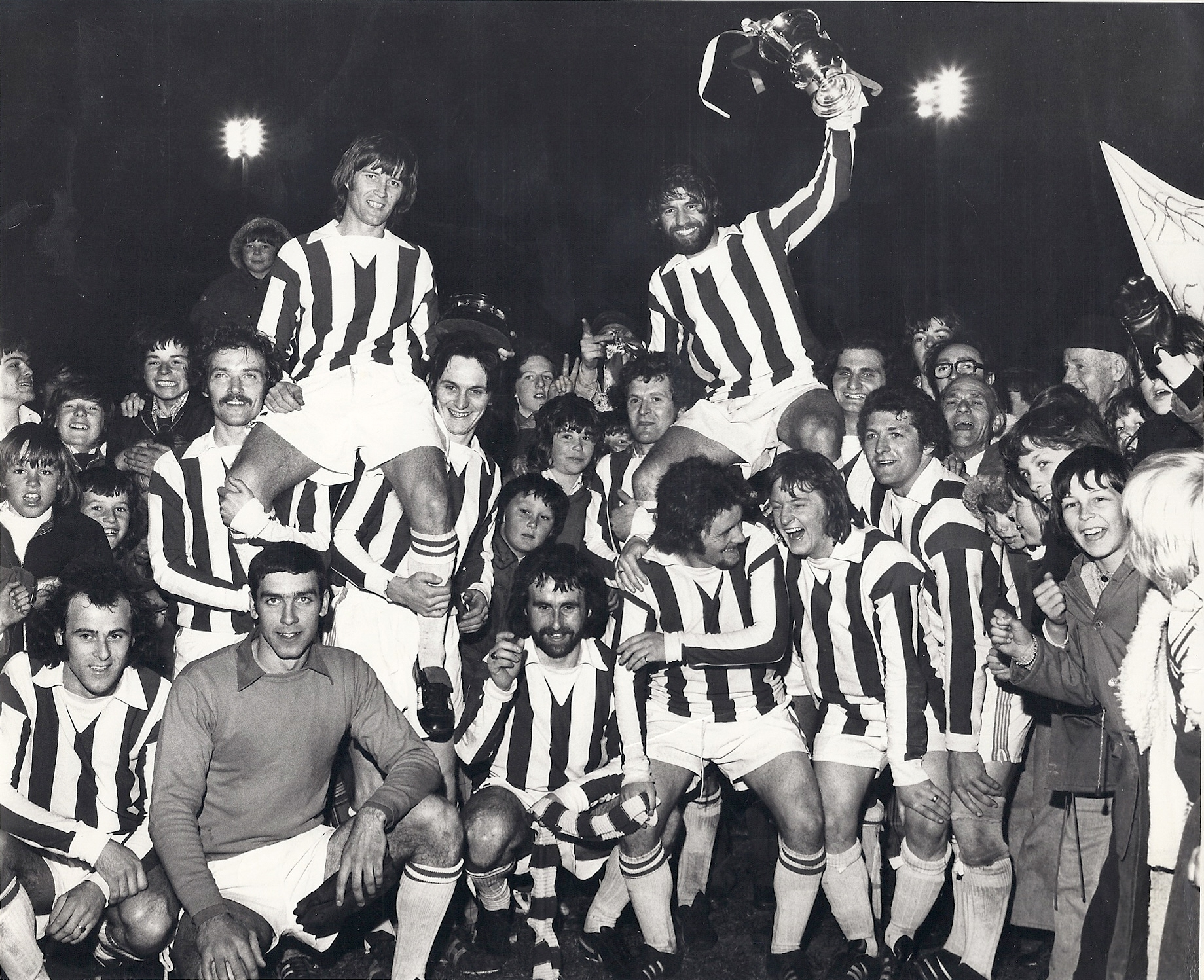 Sheppey United with the Kent League trophy in 1975